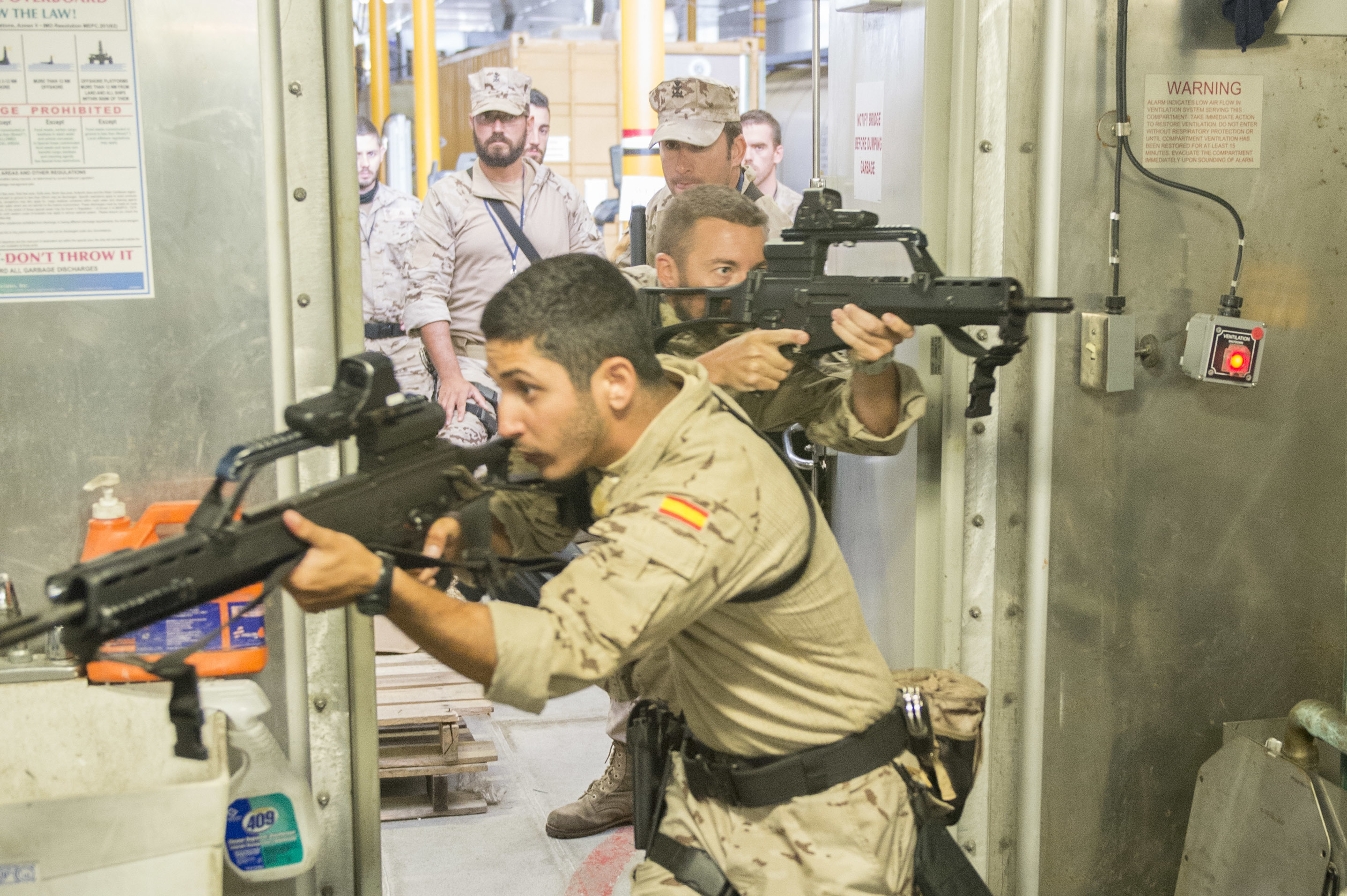 150421-N-EC444-063 DAKAR, Senegal Spanish maritime forces practice room-clearing aboard the Military Sealift Command’s joint high-speed vessel USNS Spearhead in support of Exercise Saharan Express 2015, April 21. Saharan Express is a U.S. Africa Command-sponsored multinational maritime exercise designed to increase maritime safety and security in the waters of West Africa.